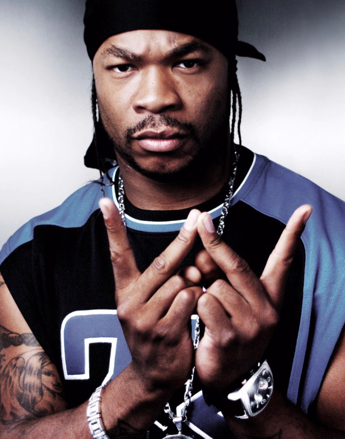 Rapper Xzibit, shot in Berlin. Xzibit posing with the W of his album Weapons of Mass Destruction, photographed by Matti Hillig